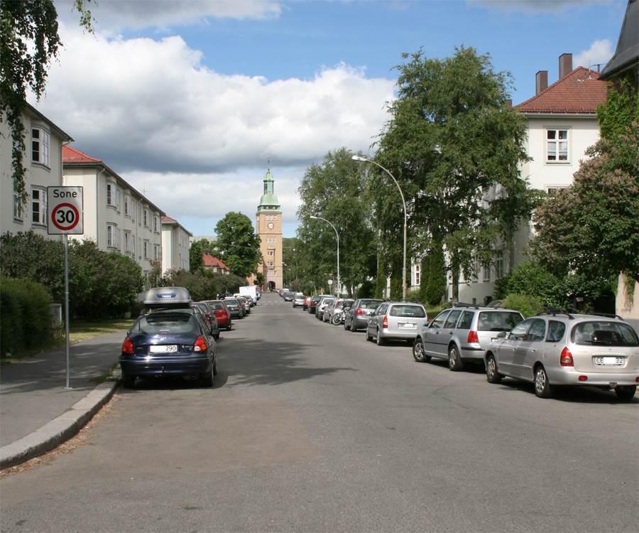 The street Stensgata in Oslo, looking toward the entrance of Ullevål hospital